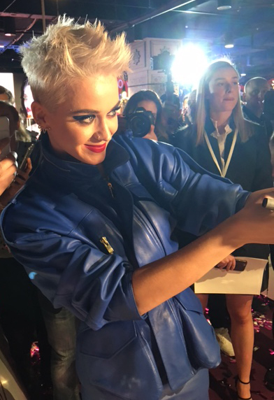 Katy Perry posing for pictures with fans at Myer department store, Sydney